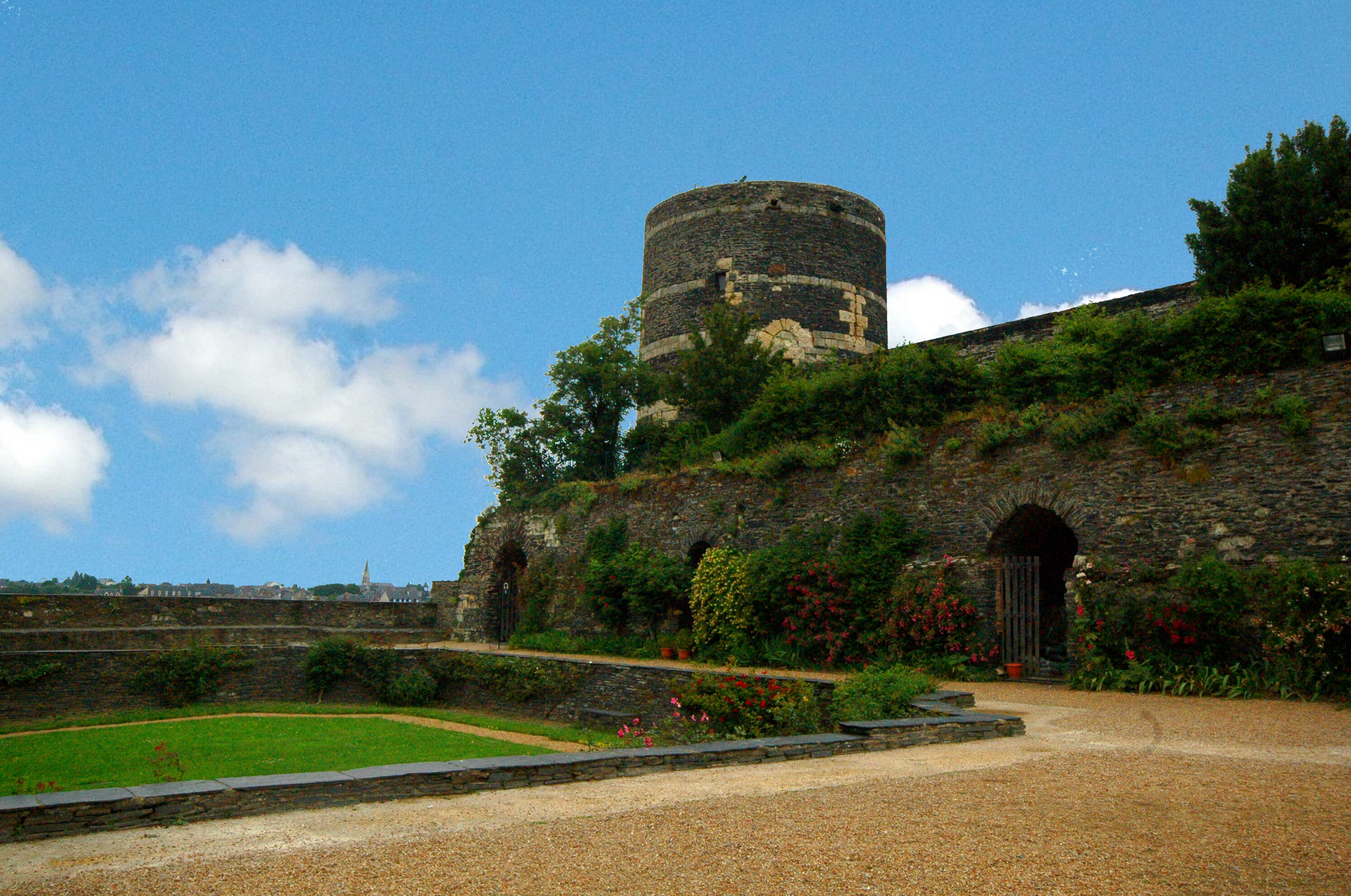 The Castle interior, Angers